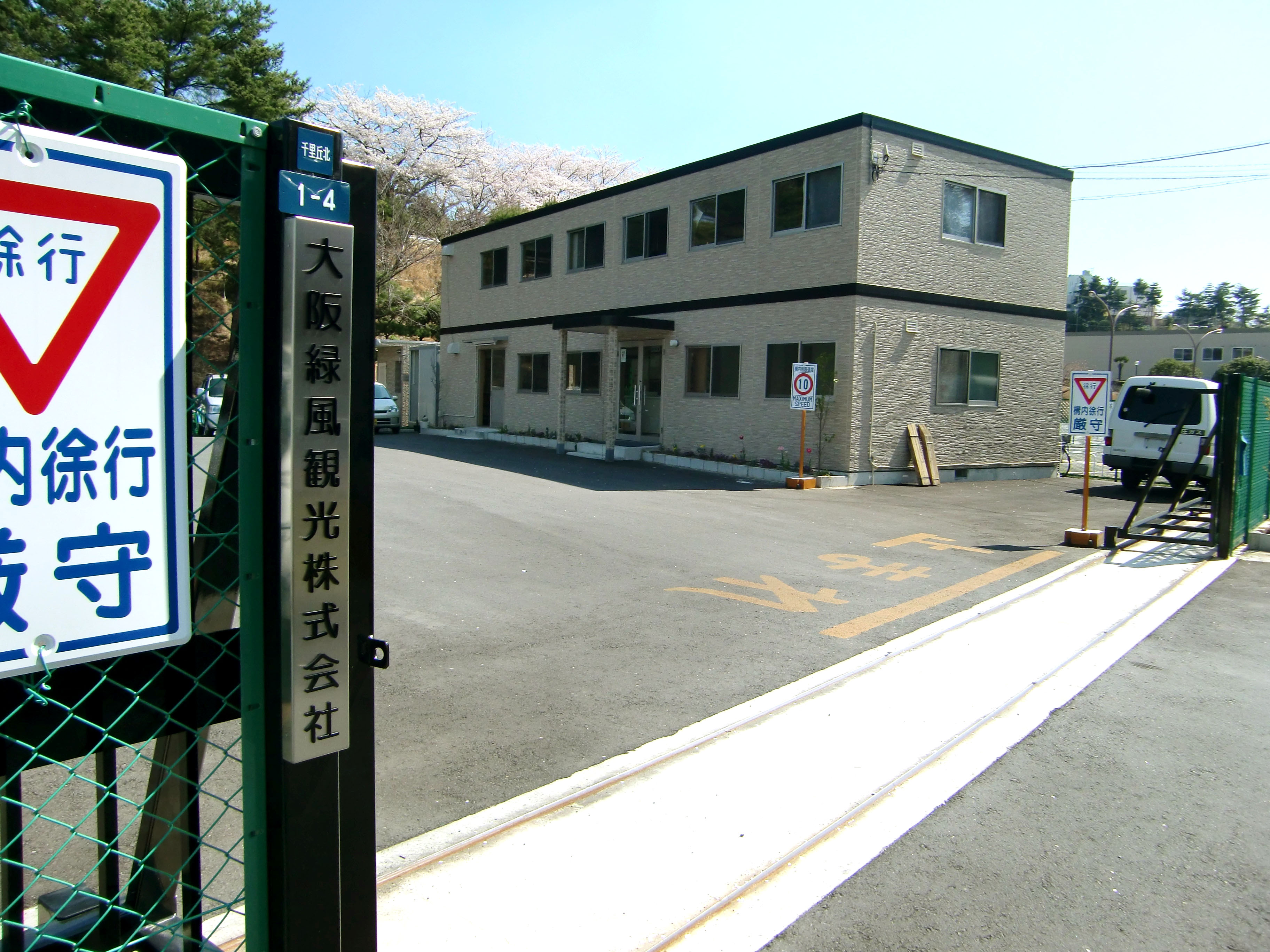 Ryokufu Resort Senrioka,1-4 Senriokakita Suita-City Osaka JAPAN.